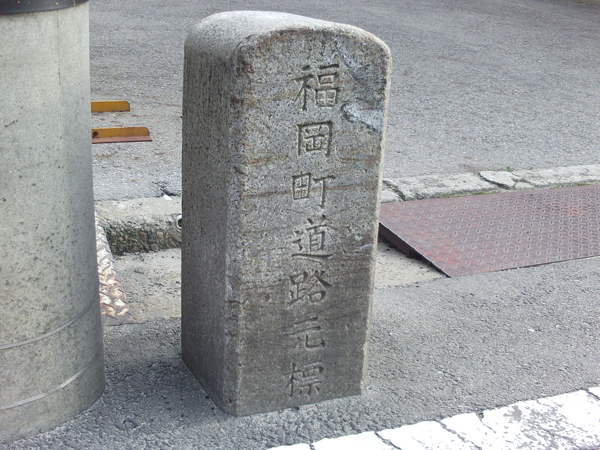 Kilometre zero of Fukuoka town. (Fukuoka town, Nukata-gun, Aichi.)